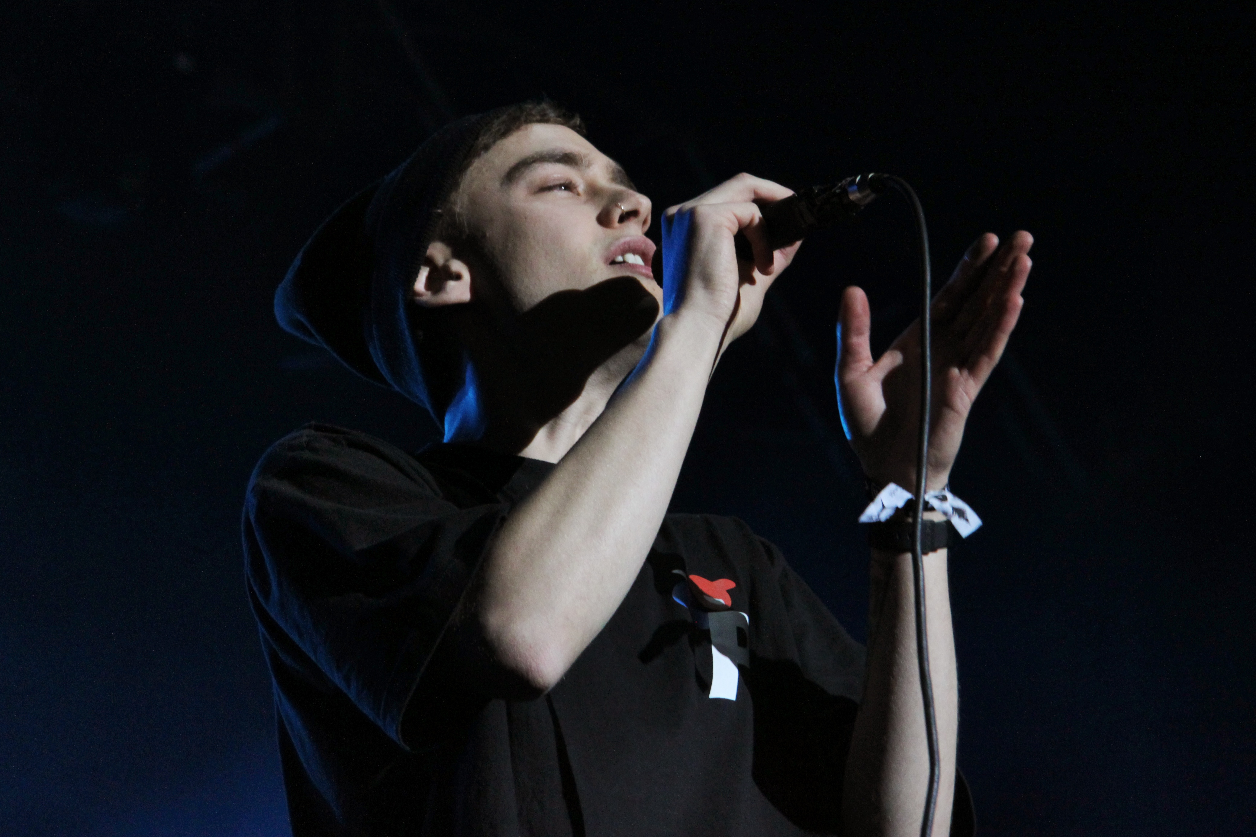 Years & Years during Tauron Nowa Muzyka 2014 festival.